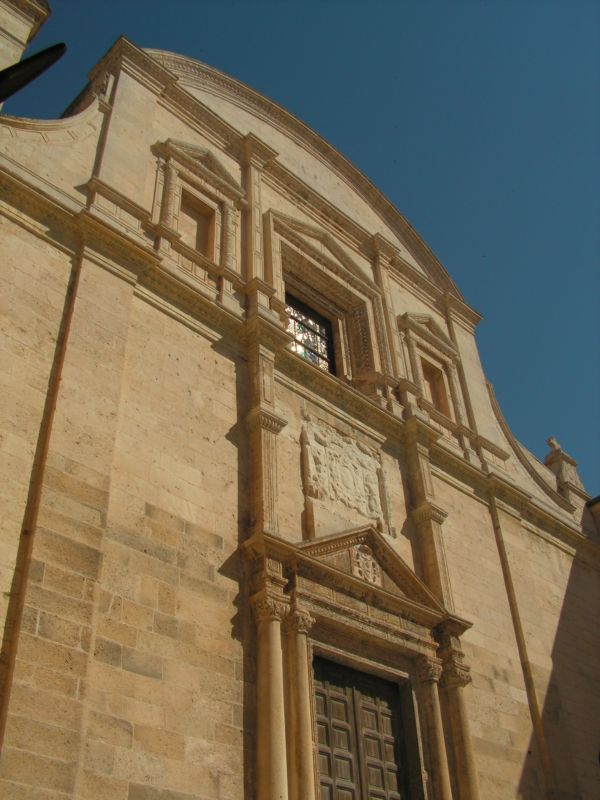 Church of Santa Caterina (sassari- Sardinia) XVI century